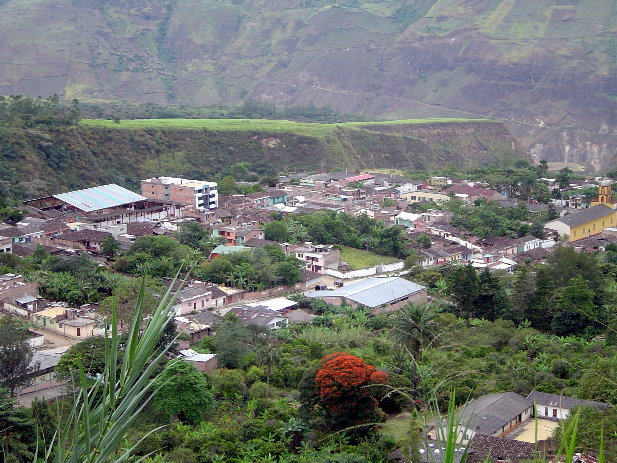 Panoramic view of the town of Consaca-Colombia